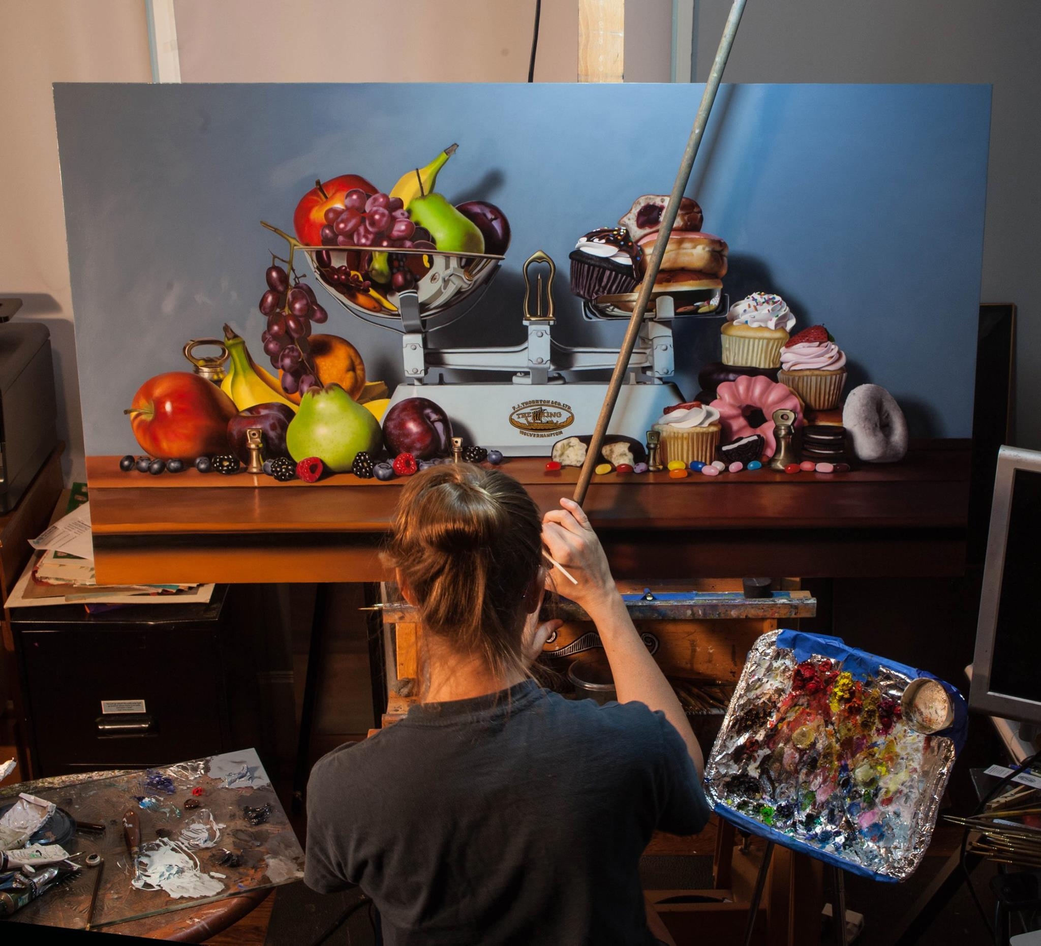 Artist Susan Harrell works on commissioned painting entitled "Balanced Diet" in July of 2015, at her studio.